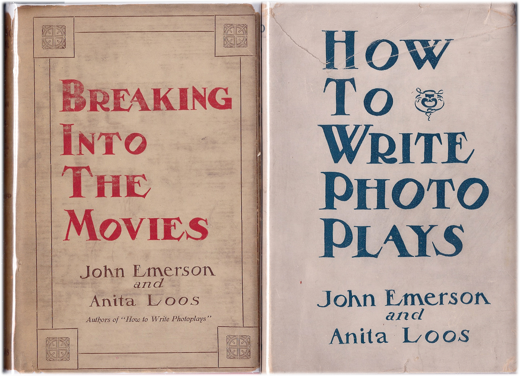 John Emerson and Anita Loos, Breaking Into The Movies and How To Write Photo Plays PUBLIC DOMAIN